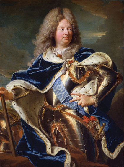 Portrait of Louis Antoine de Pardaillan de Gondrin, duc d'Antin (1665-1736), Lieutenant général des armés du roi en 1702, surintendant général des Bâtiments du roi en 1716